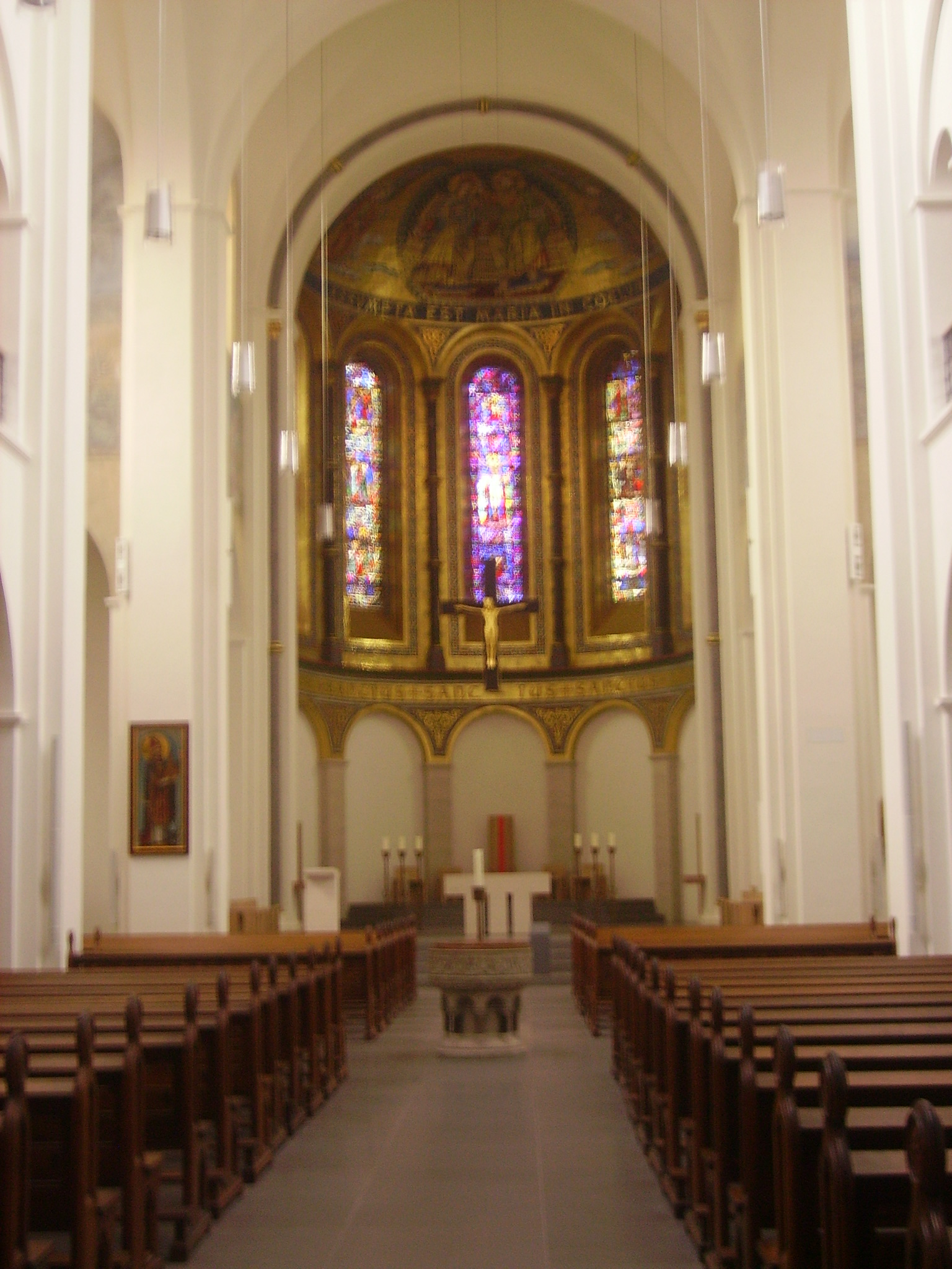 Choir of the catholic Cathedral/Minster St. Mary, Hamburg